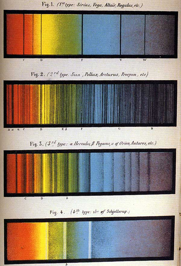 Secchi's four classes of stellar spectra, from a colored lithograph in a book published around 1870. This shows how someone looking through a spectrograph on a large telescope would see the spectrum from the brightest stars. The spectra would be much fainter for most stars, making for difficult observing. The principal spectral lines are identified underneath by letters that Fraunhofer assigned. Yes there is a typo in figure two, it should say 2nd not 2rd.